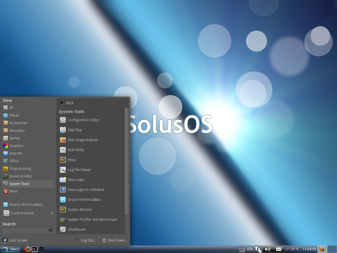 desktop with launched Cardapio menu